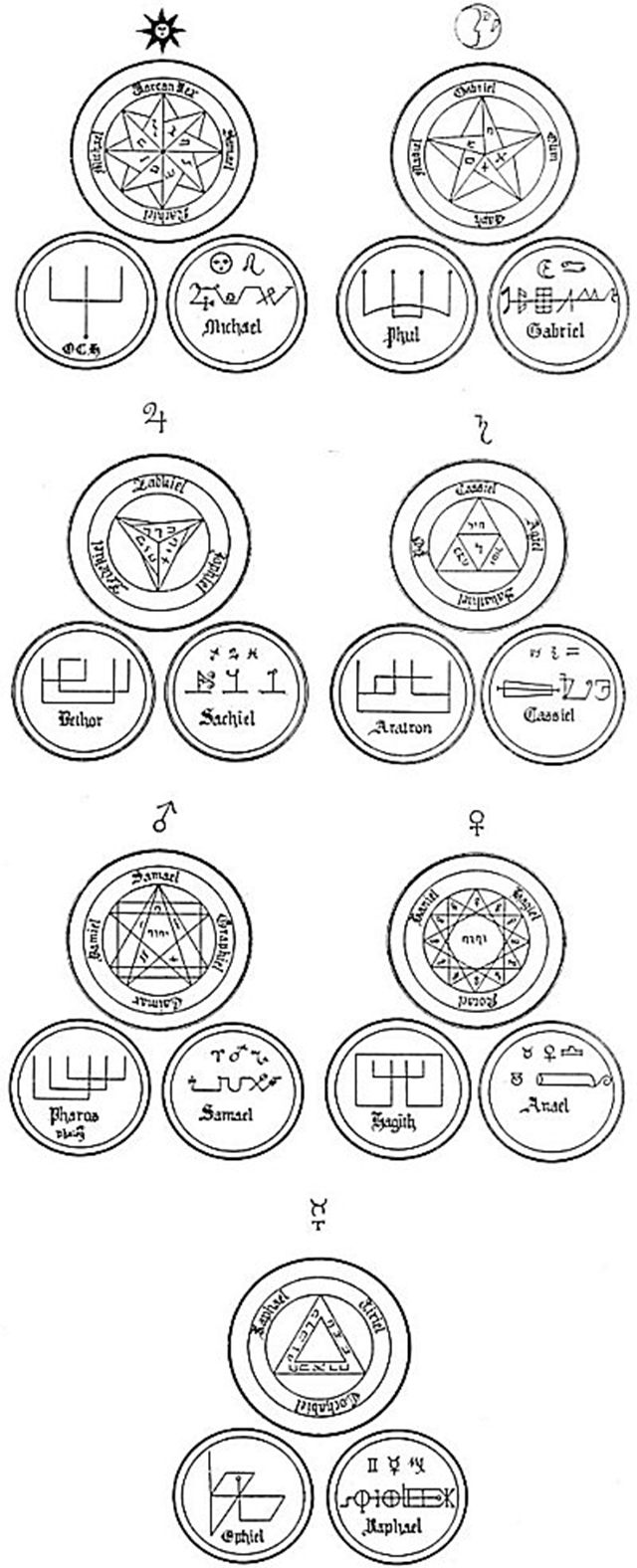 Seven Seals of Archangels: Michael, Gabriel, Sachiel, Cassiel, Samael, Anael, and Raphael; from Frederick Hockley’s Complete Book of Magic Science.